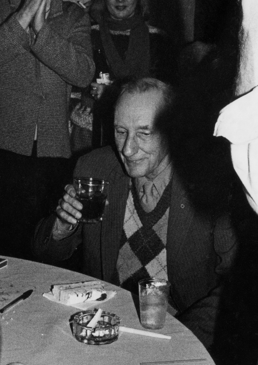 William Burroughs enjoying cake and alcohol at his 70th birthday.